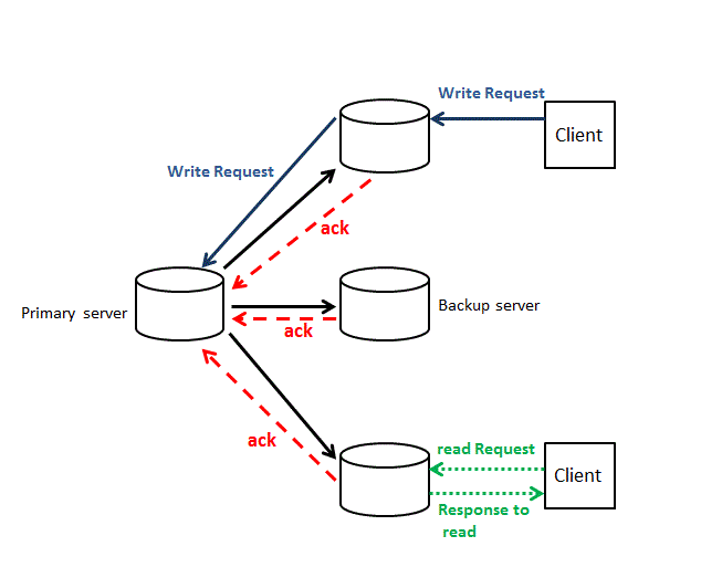 Primary backup protpcol